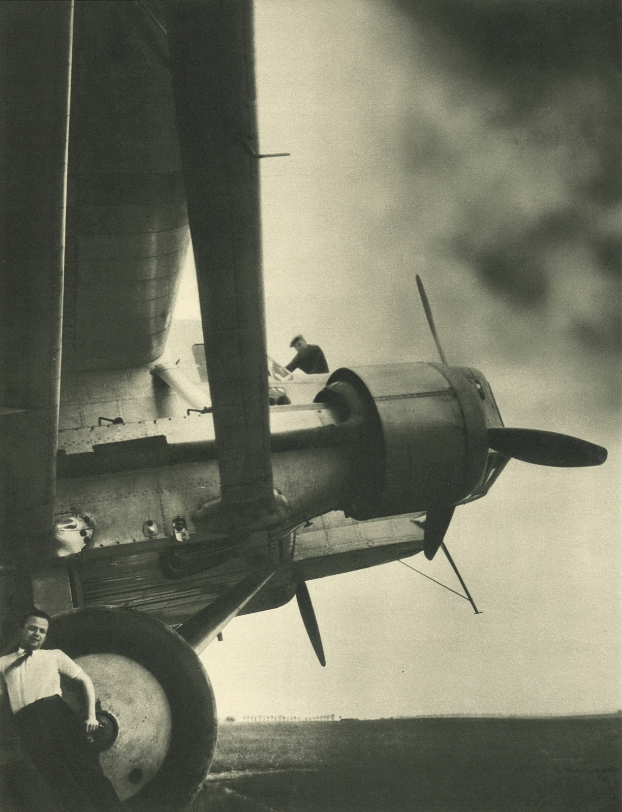 Bomber Farman F.221